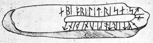 Smålands runinskrifter 2. Sketch made in 1691, thus PD.